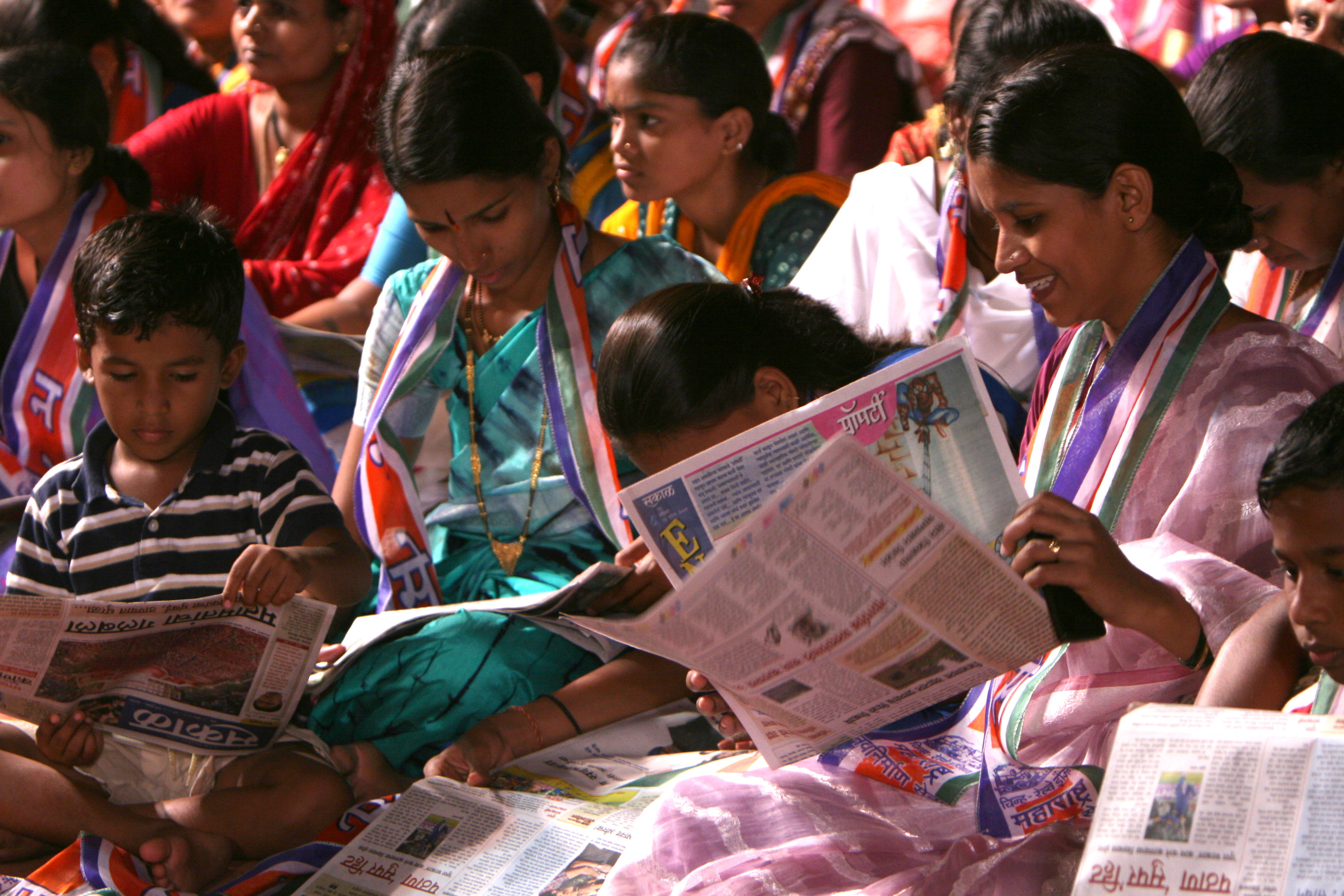 Indian voters read regional newspaperers at a MNS rally in Mumbai.